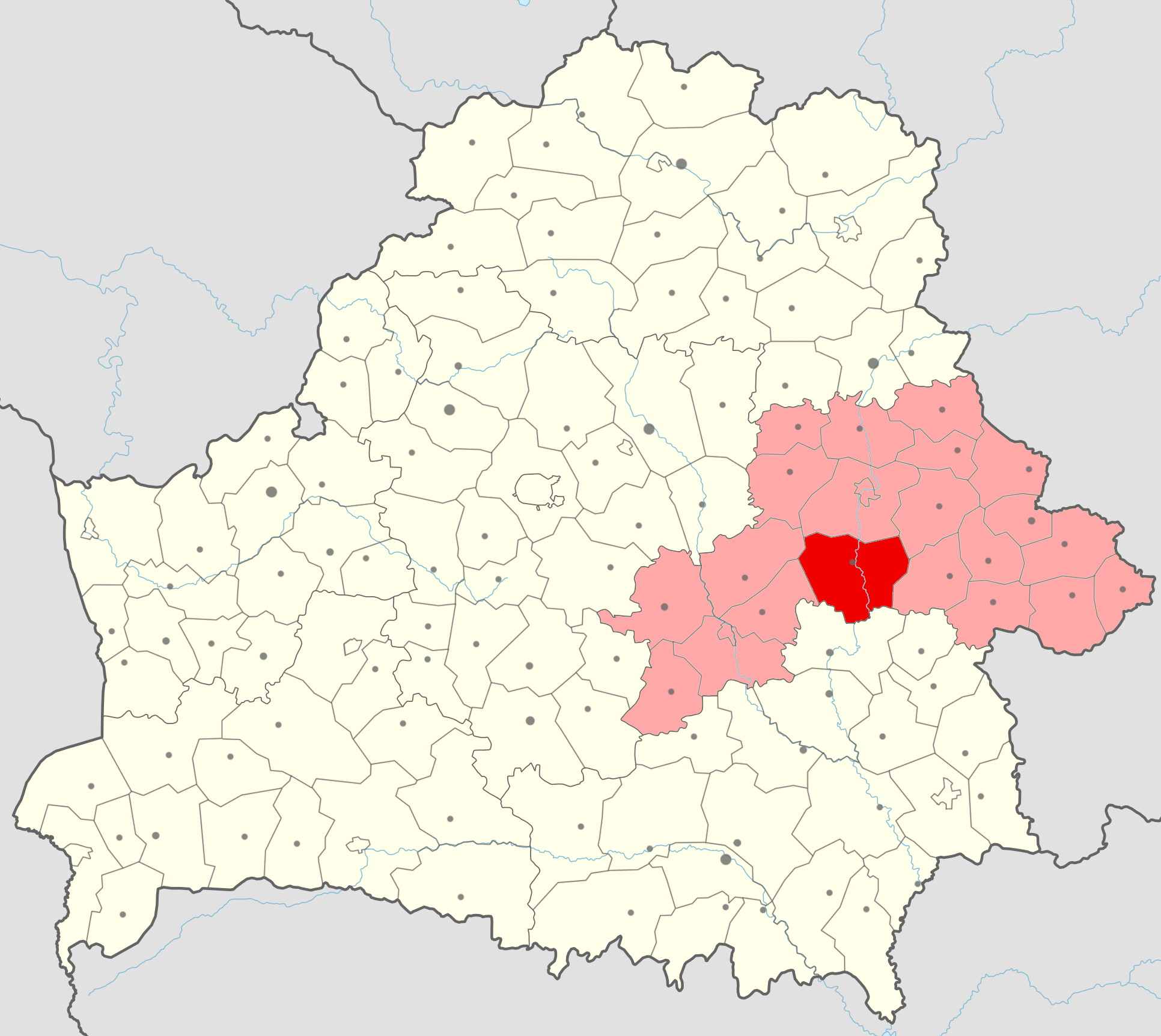 Location of Bychaŭski rajon (red) in Mahilioŭskaja voblasć (light red) in Belarus.